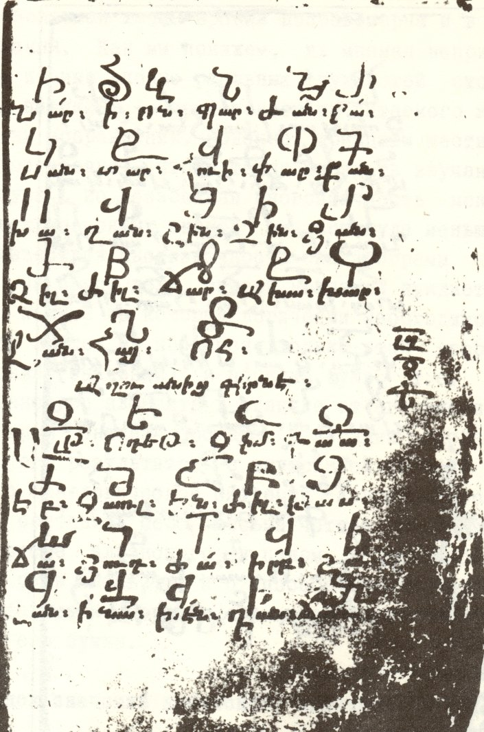 Ms. no. 7117, fol. 142r and 142v, from the Erevan Matenadaran.